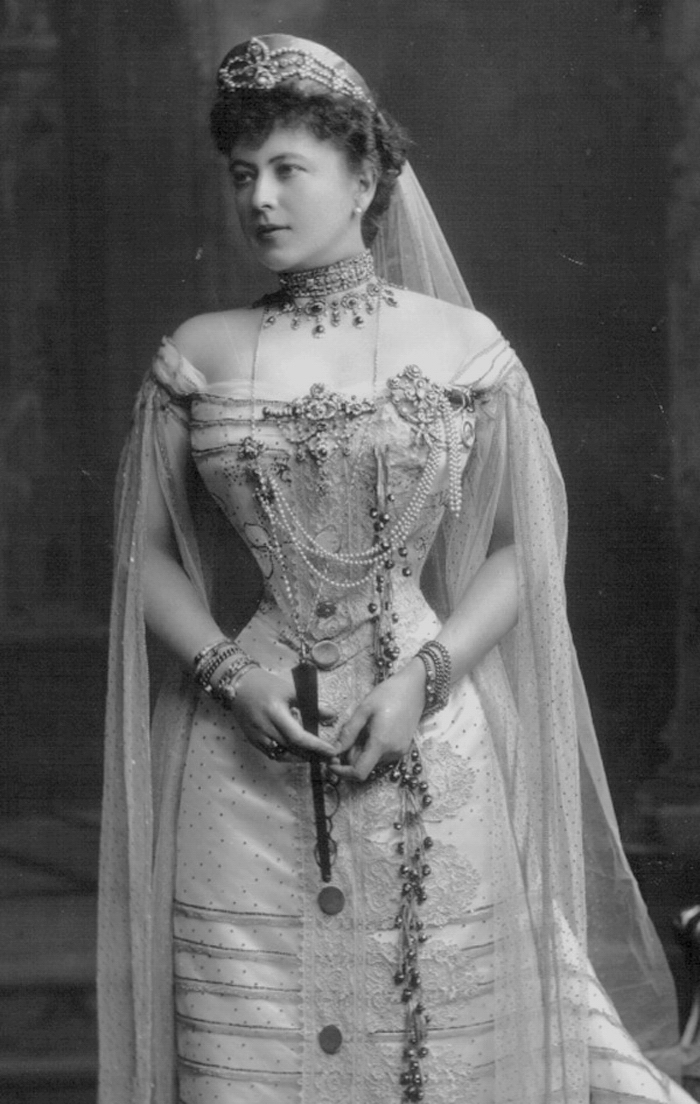 Sofia de Torby, nee Merenberg — the wife of grand duke Michail Mikhailovitch